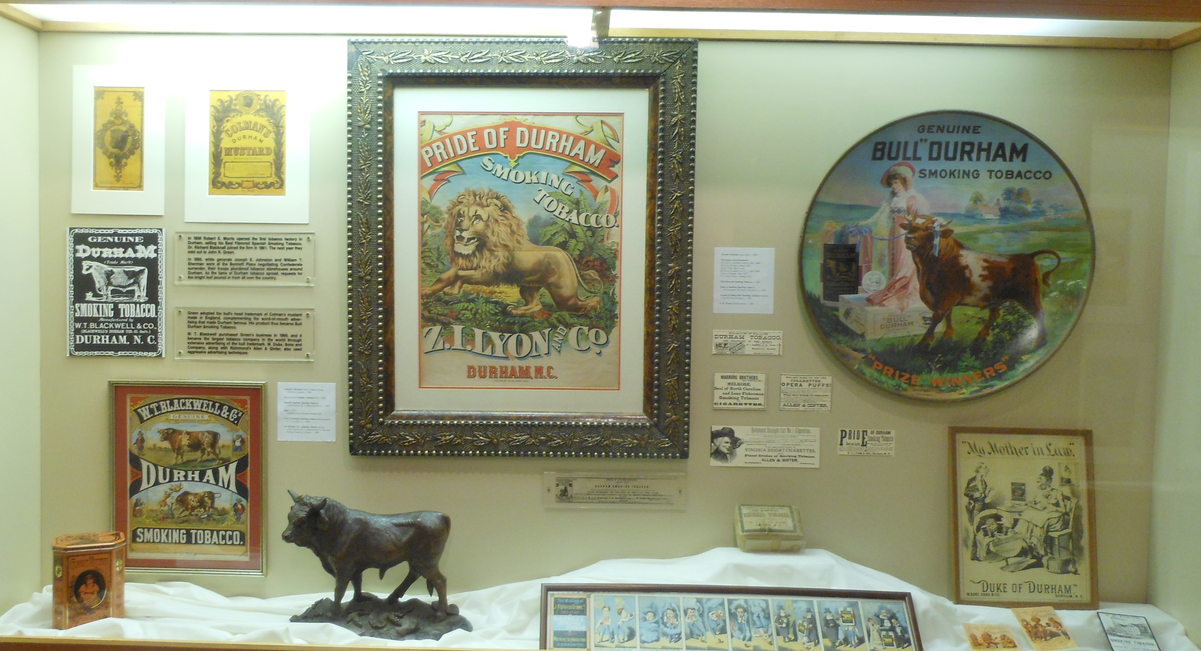 Classic 20th-century advertisements of Tobacco products made in Durham, NC